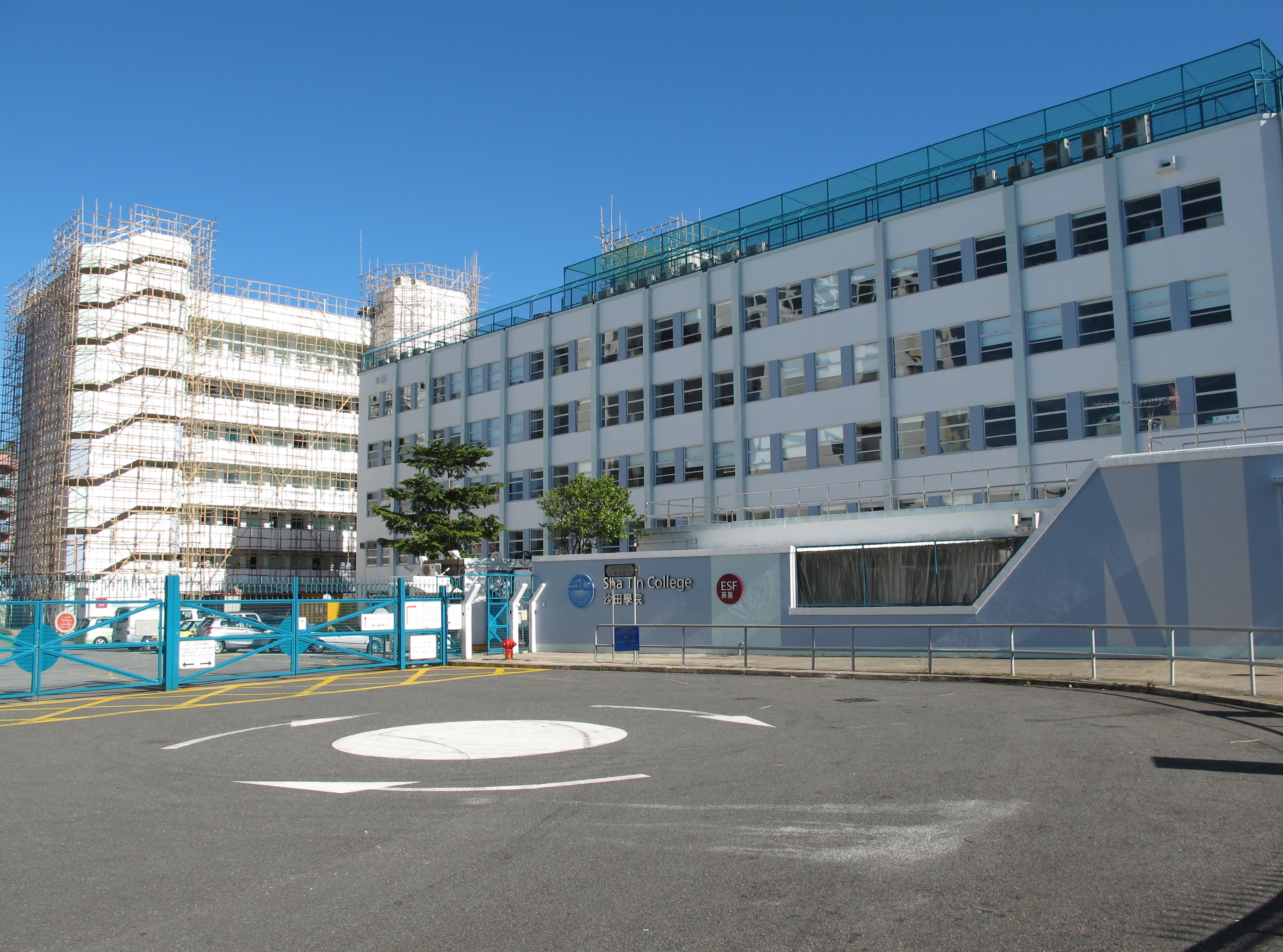 Shatin College